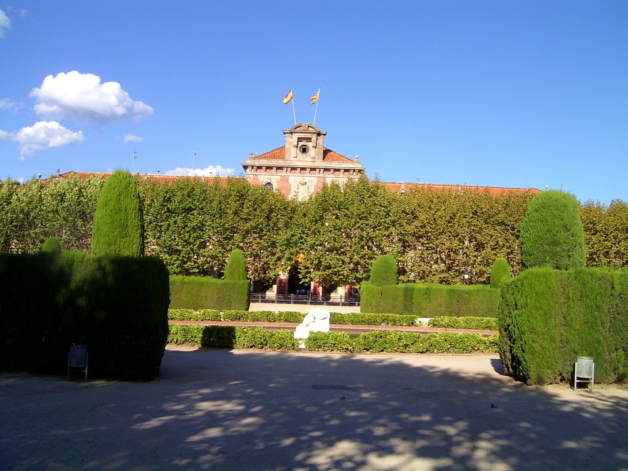 Actual Parliament of the Autonomous Community of Catalonia, held in Barcelona